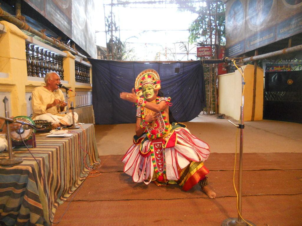 Ottamthullal